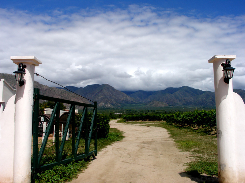 A winery near Cafayate, Salta Province (Argentina).